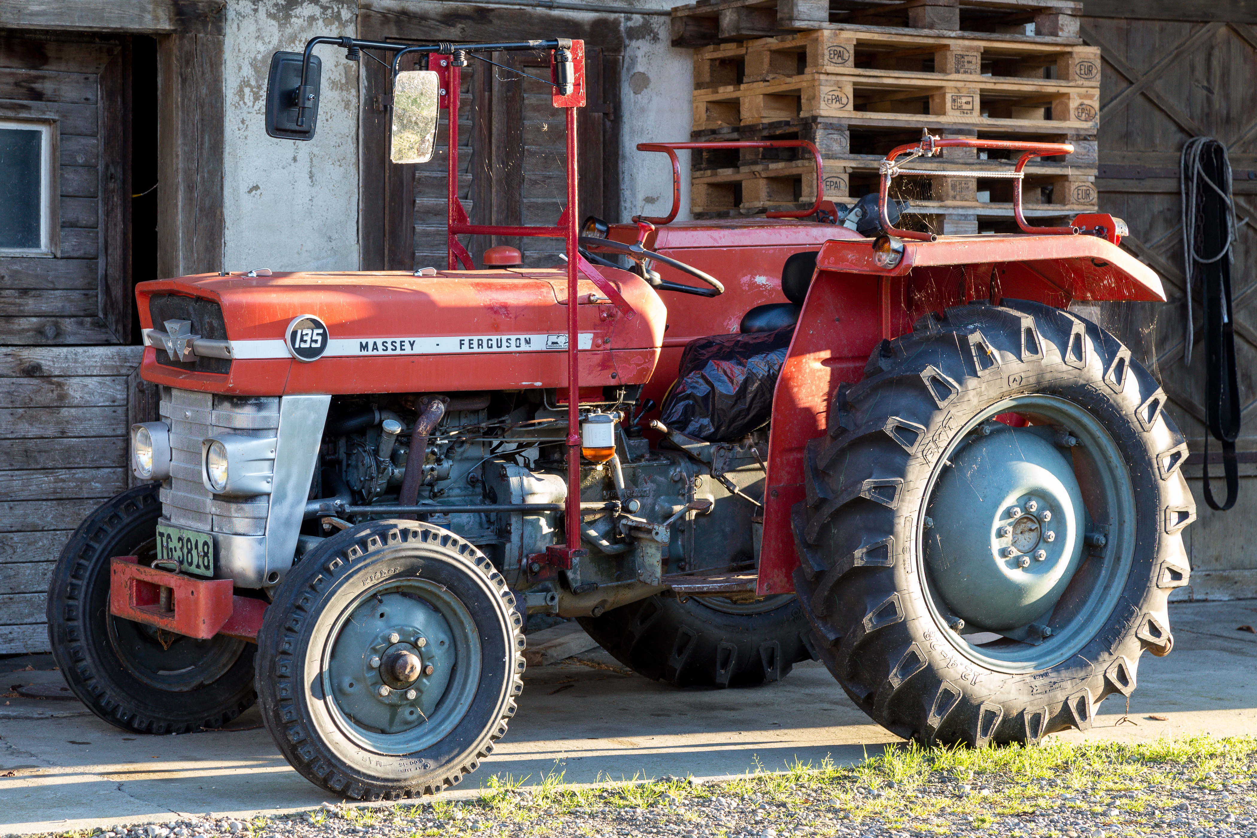 Massey Ferguson MF 135 in Switzerland